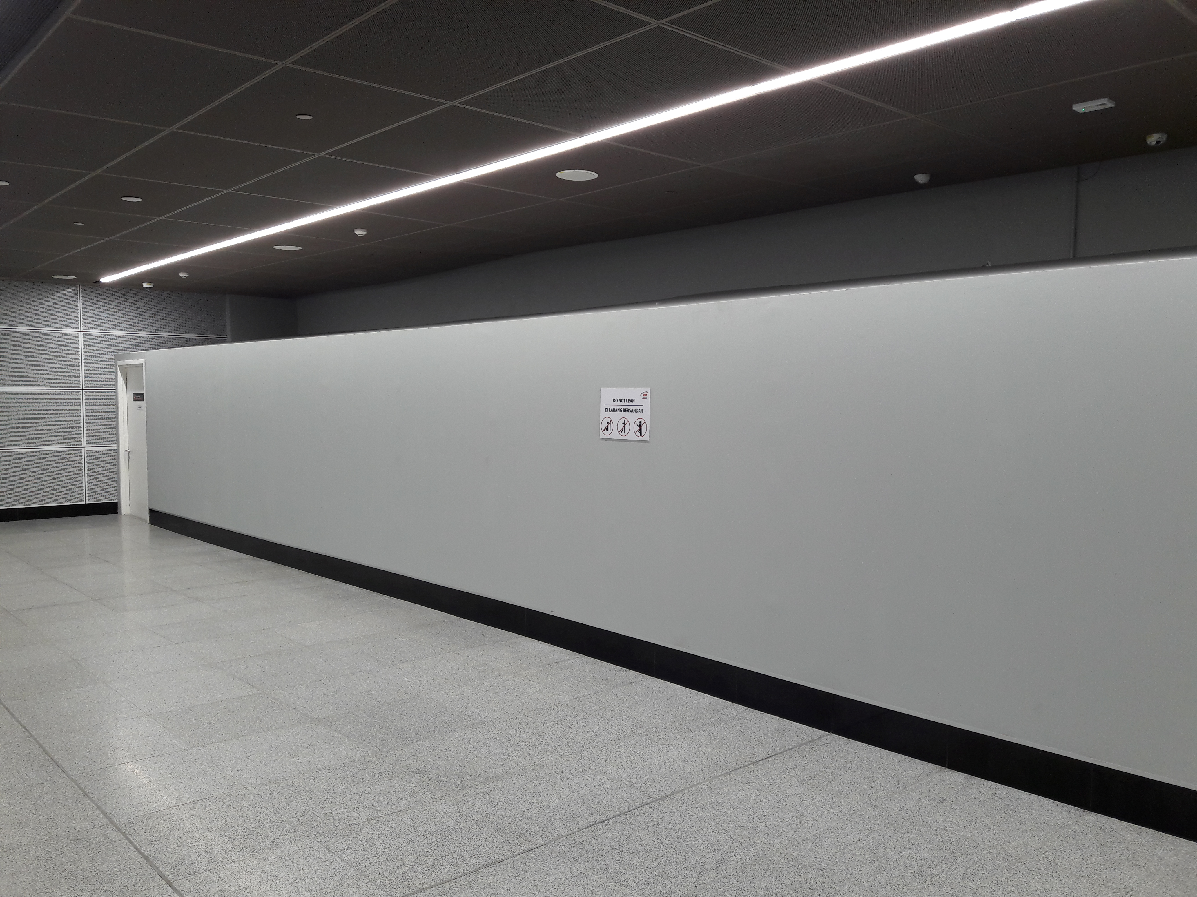 Future platform for the Sungai Buloh-Putrajaya Line at the Tun Razak Exchange MRT station